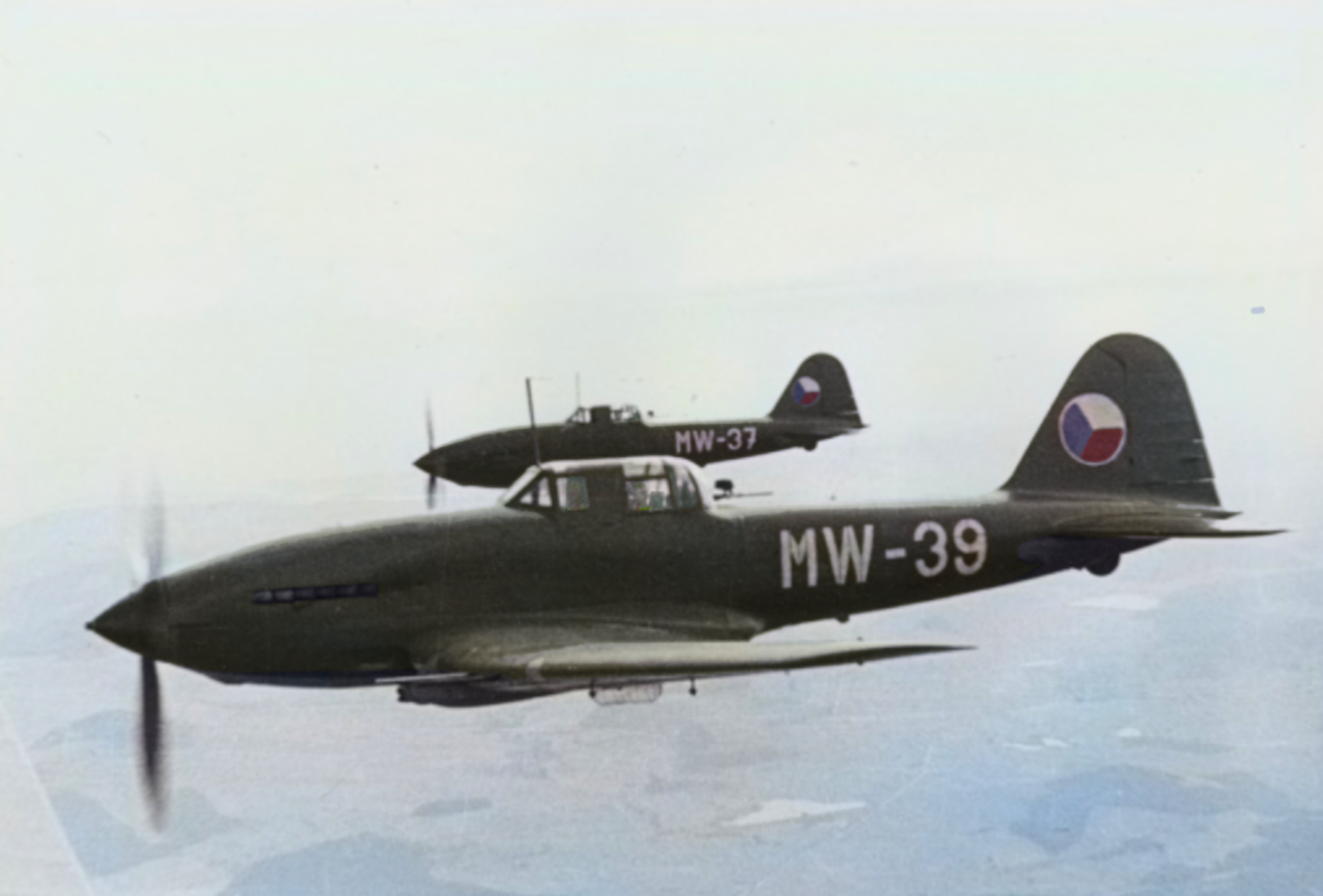 Czechoslovak Air Force B-33 in flight